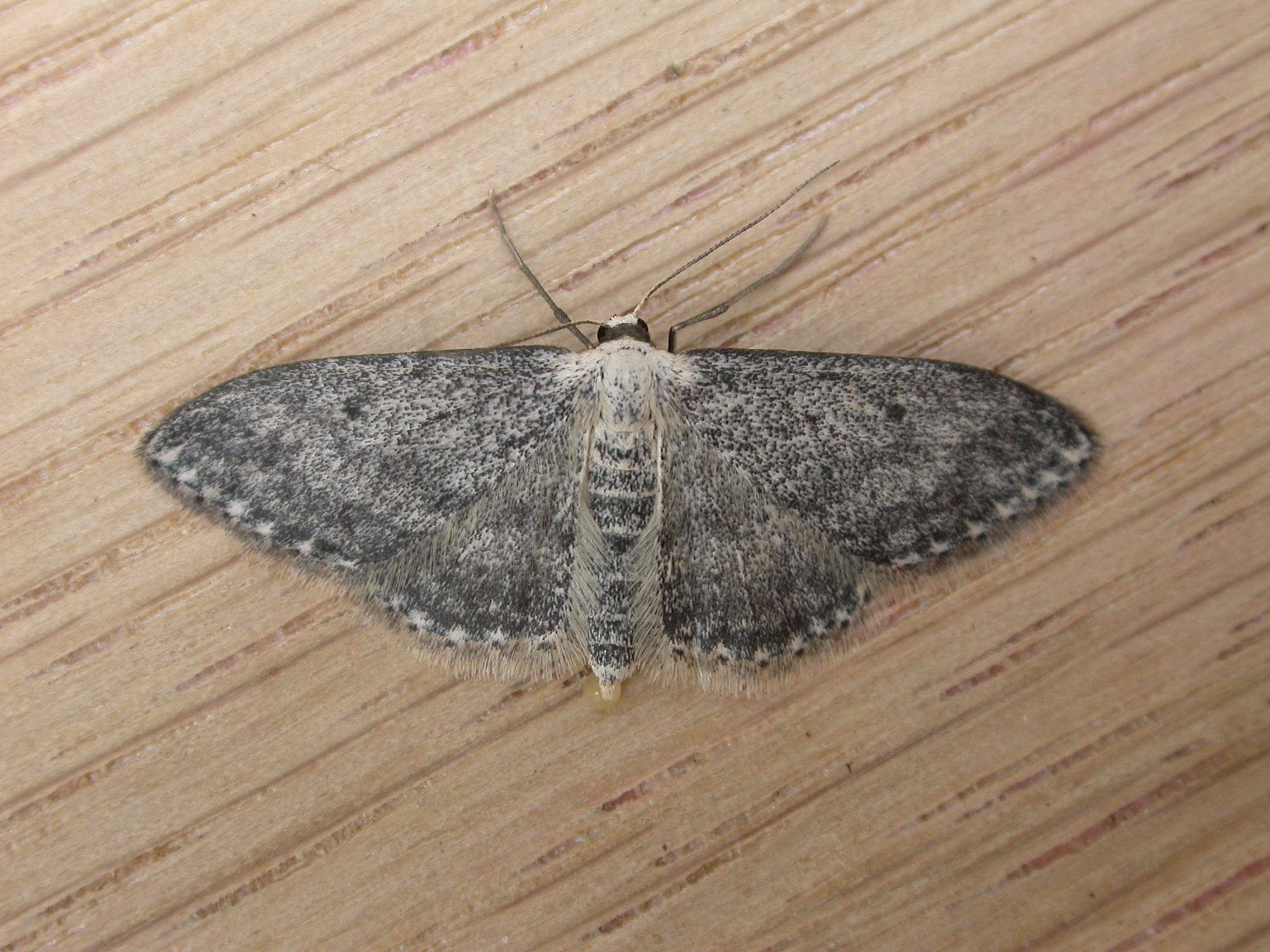 Idaea seriata (Schrank, 1802), Small Dusty Wave, to Robinson trap, Hellerup, Denmark, 9/10 June 2012